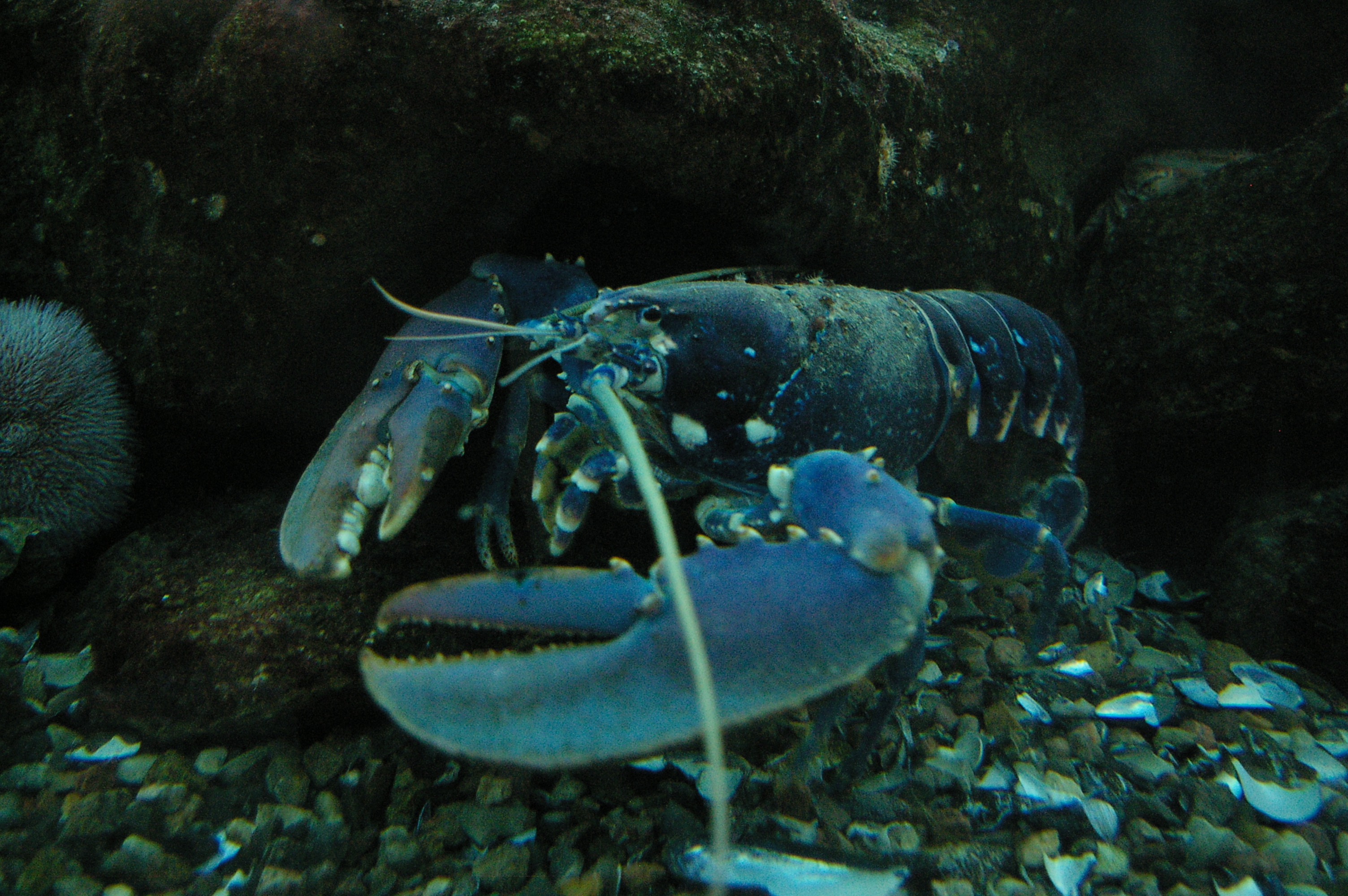 European Lobster